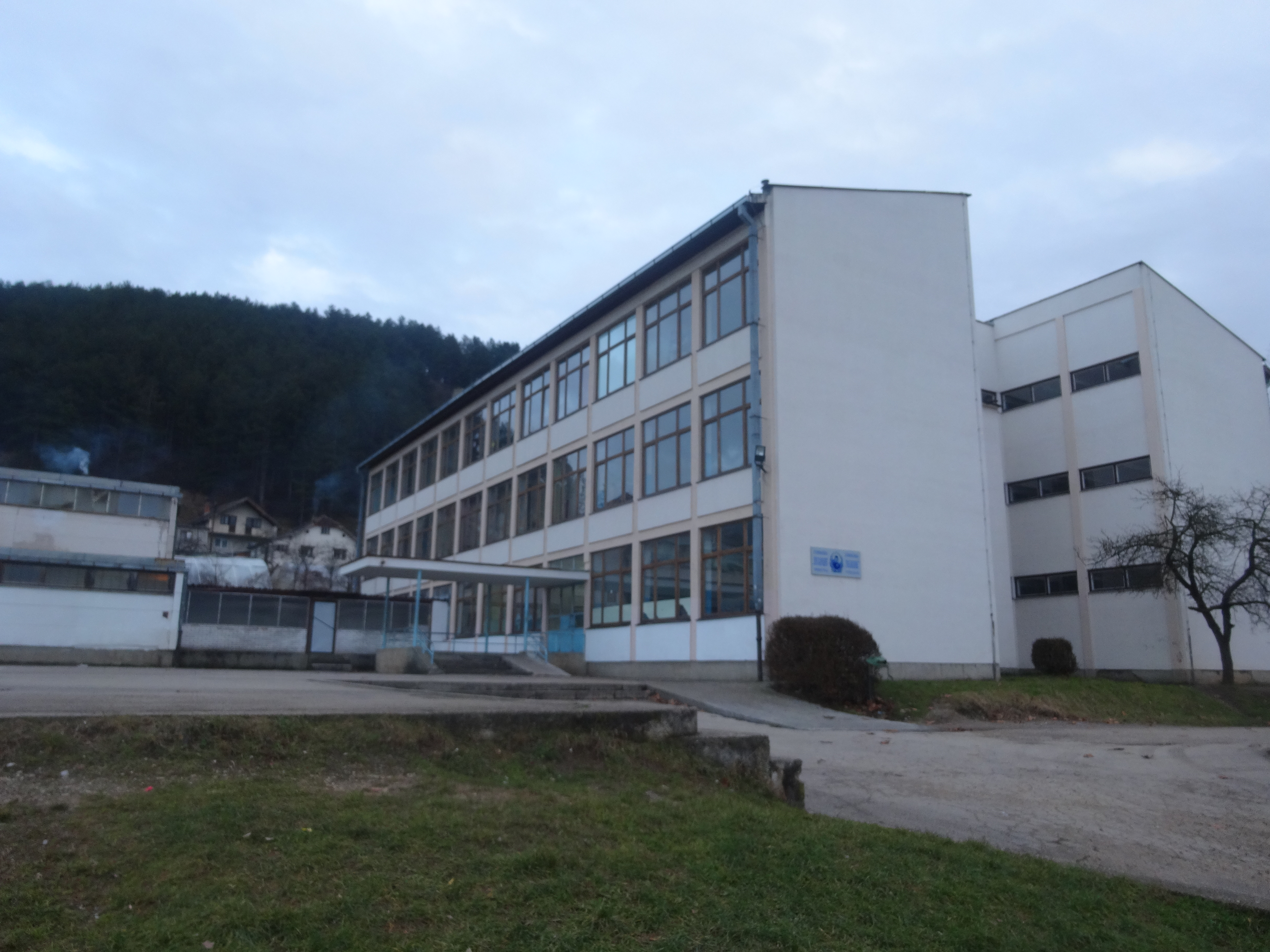 Primary school "Vuk Karadžić", Višegrad